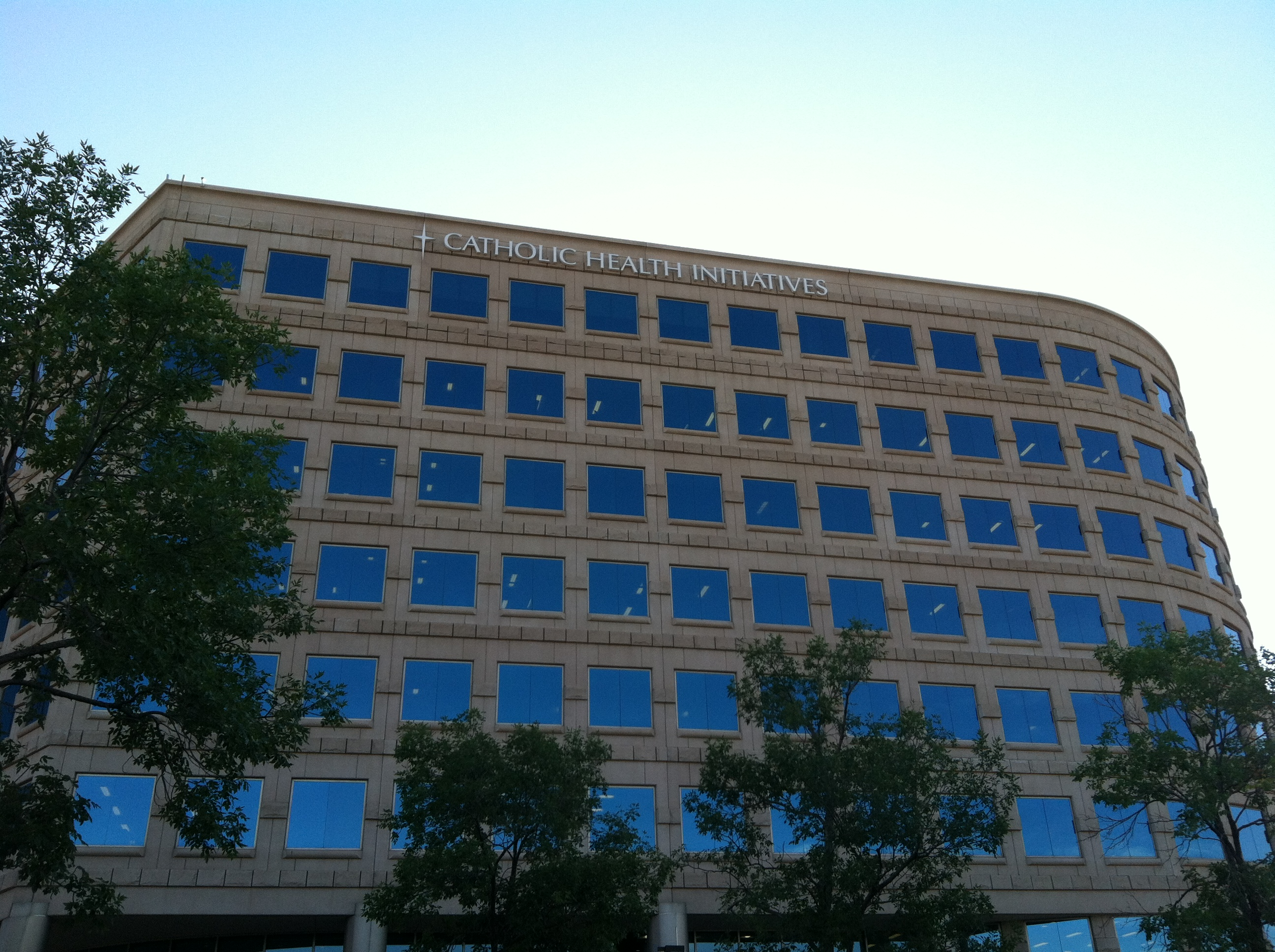 This is the Catholic Health Initiatives headquarters in Inverness, Colorado.